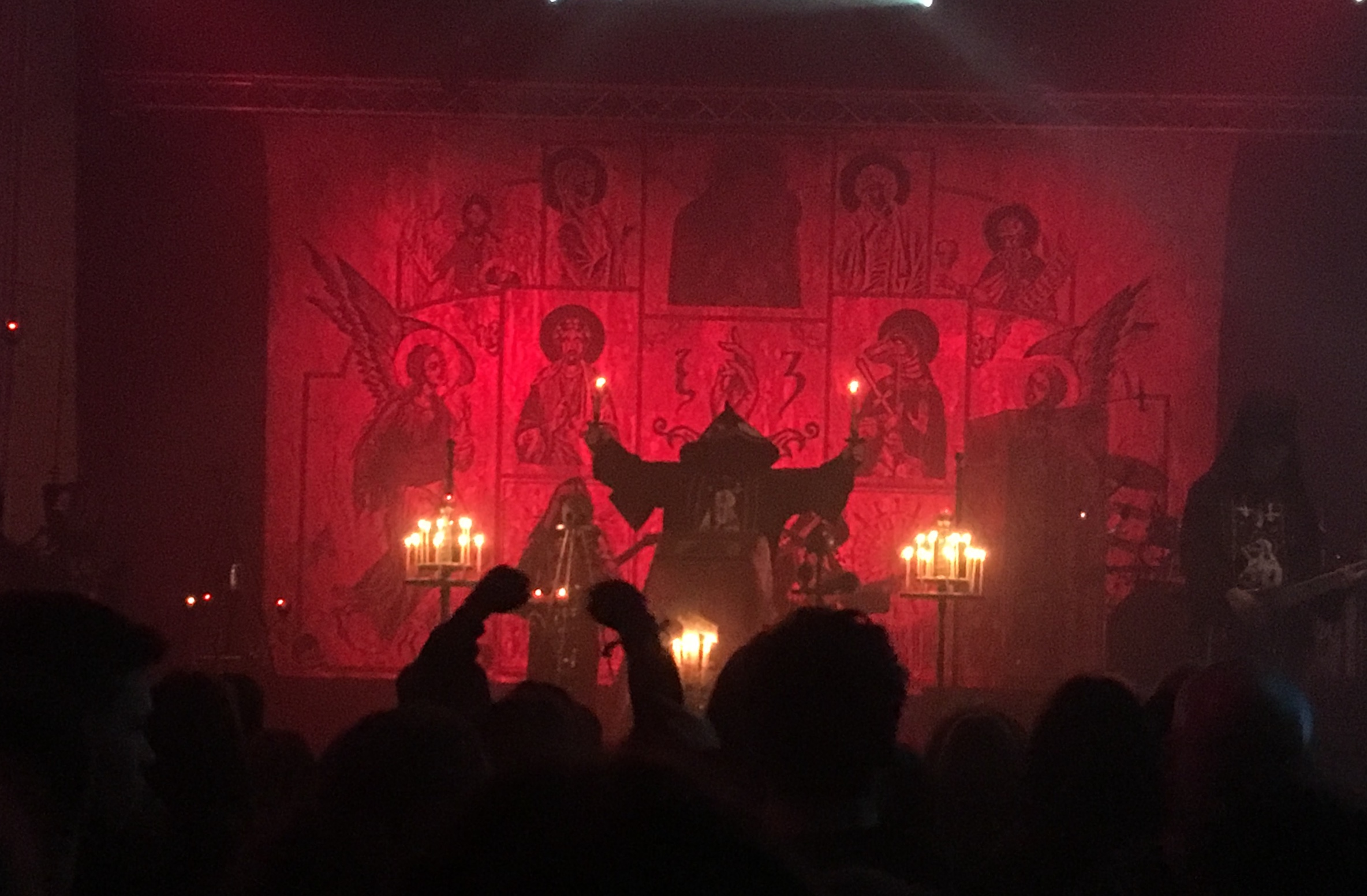 Batushka performing at Winter Days of Metal, Bohinjska Bistrica, Slovenia. 2. 12. 2018